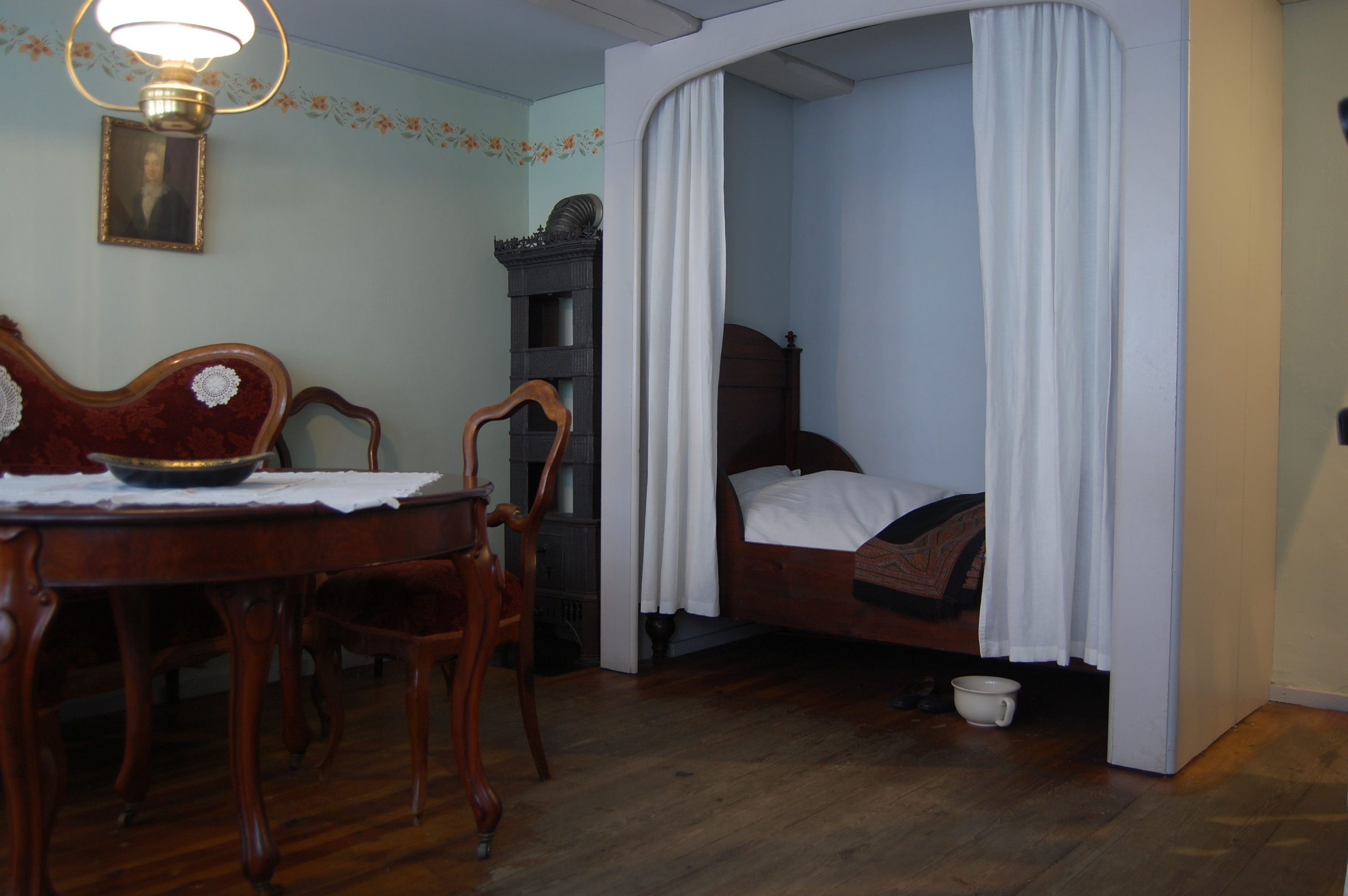 Grocers' Apartments museum (outpost of ), Hamburg, Germany. Interior of first floor bed-sitting room, showing bed. This is a photograph of an architectural monument.